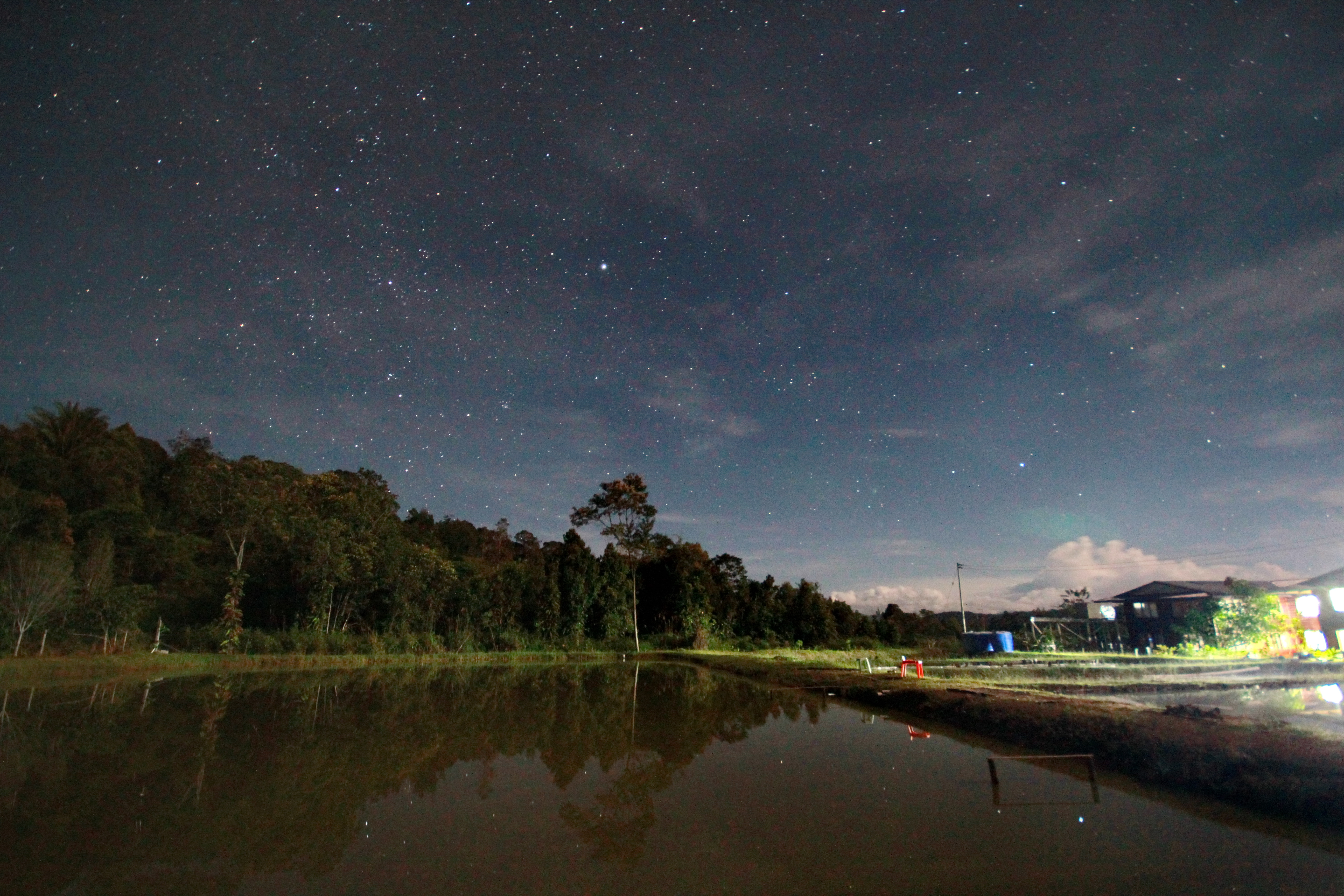 Labang Longhouse Nightscene